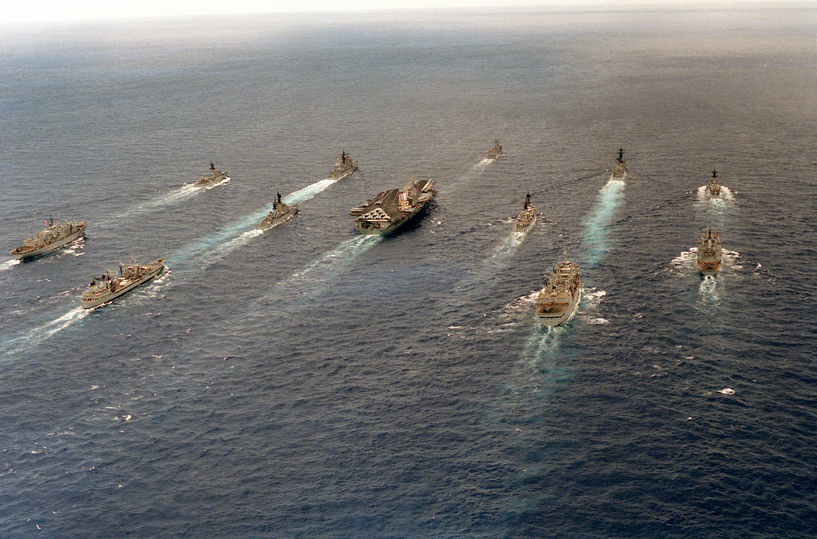 An aerial starboard quarter view of Battle Group Charlie underway in formation. The nuclear-powered aircraft carrier USS CARL VINSON (CVN-70) is in the center of the group.